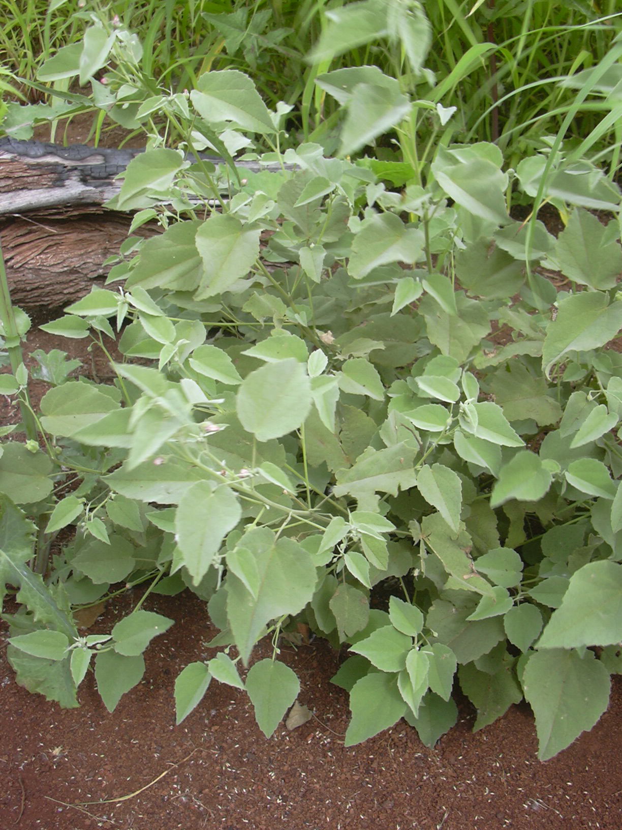 Abutilon incanum (habit). Location: Kahoolawe, Lua Kealialalo